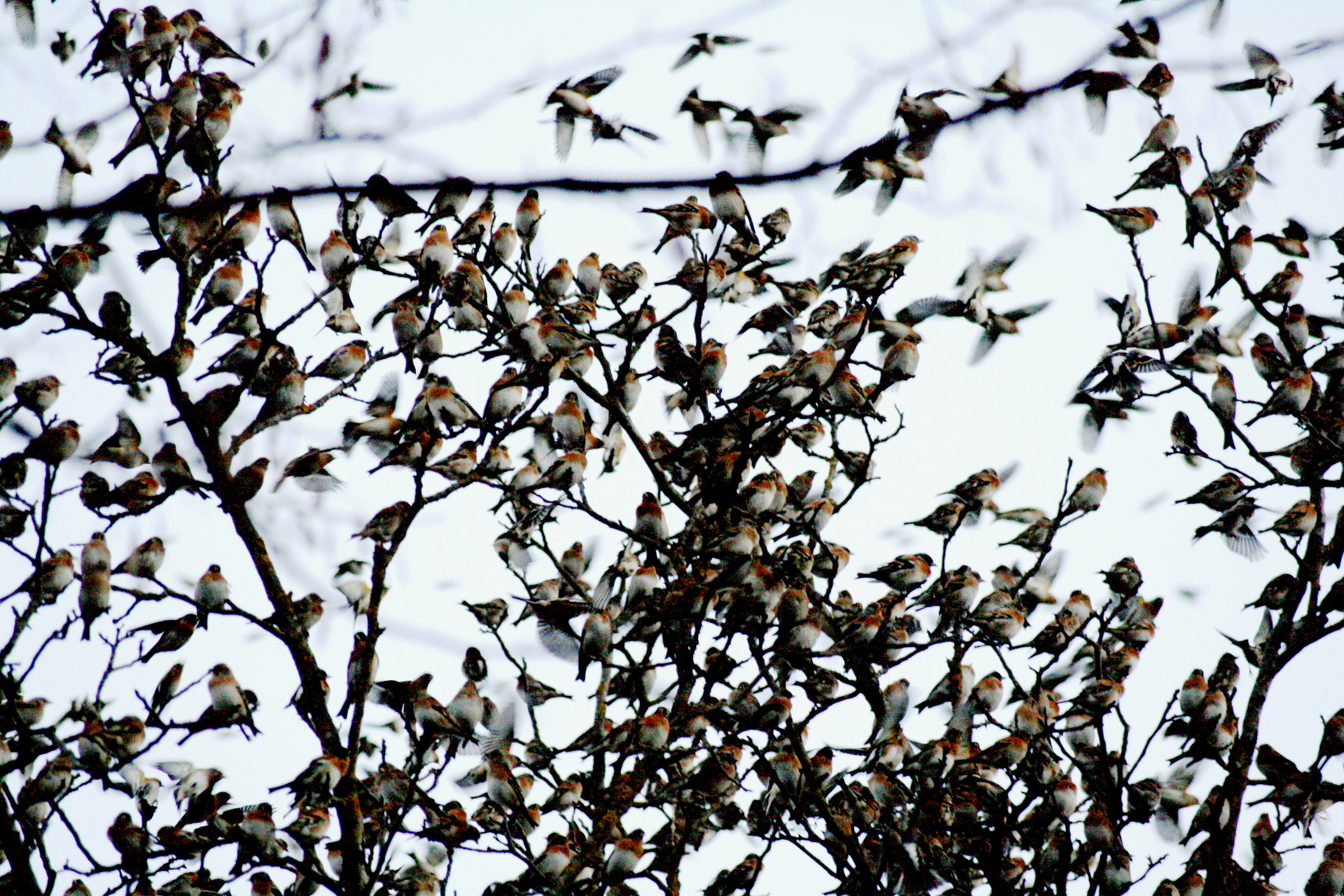 In January 2009 in Lödersdorf/Styria/Austria/Europe four million bramblings (Fringilla montifringilla) gathered together. On this picture a part of the covey.